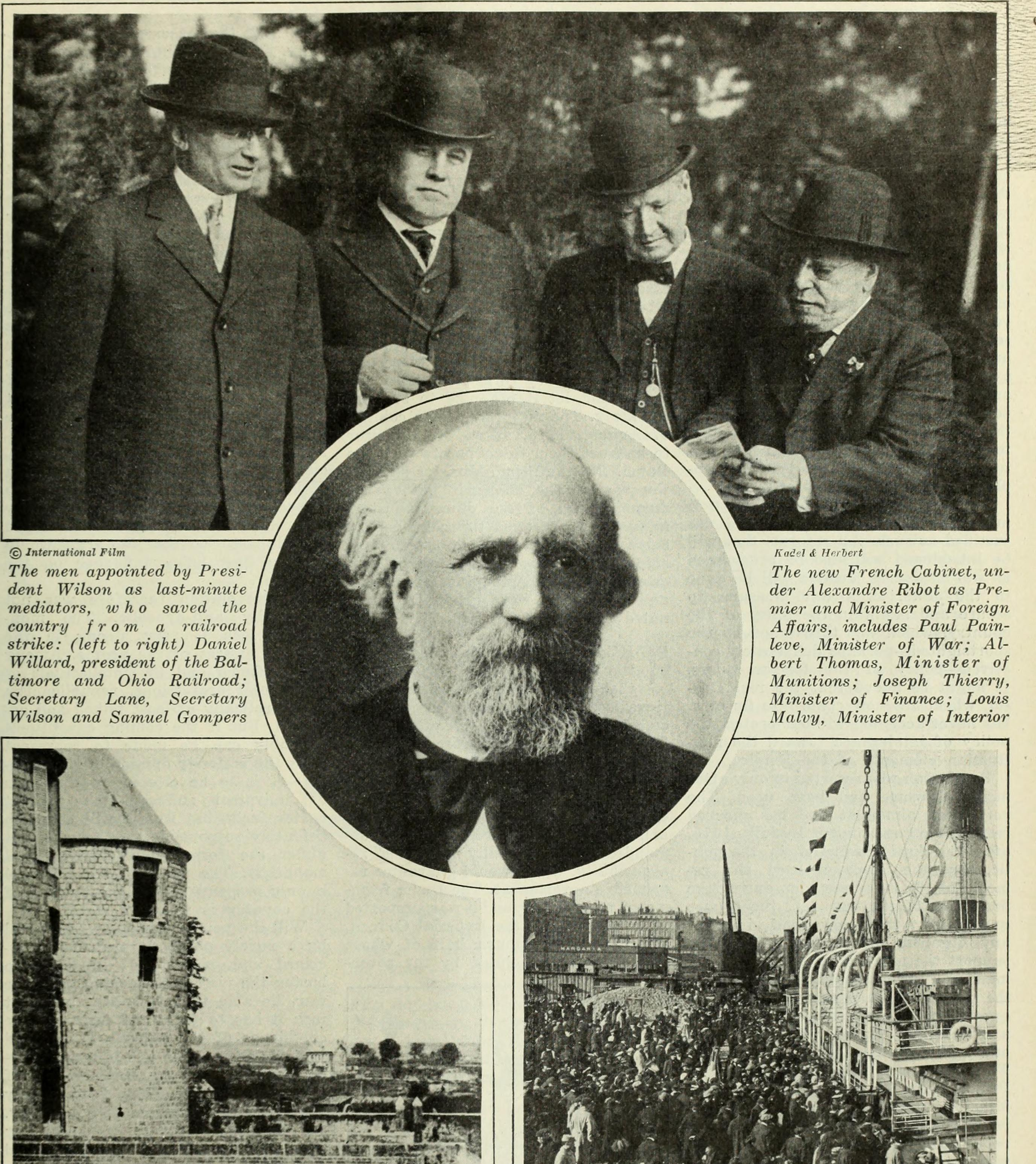 Title: The Independent Year: 1849 (1840s) Authors: Subjects: Publisher: New York : S.W. Benedict Text Appearing Before Image: A colorful rebuke to namby-pamby spring landscapes is Charles H. Davis Call of the West Wind, Altman prize-winner The Independent N EWS~ PICTORIAL Harper^ Weekly Text Appearing After Image: © International Film The men appointed by Presi-dent Wilson as last-minutemediators, who saved thecountry from a railroadstrike: (left to right) DanielWillard, president of the Bal-timore and Ohio Railroad;Secretary Lane, SecretaryWilson and Samuel Gompers Kadel £ Herbert The new French Cabinet, un-der Alexandre Ribot as Pre-mier and Minister of ForeignAffairs, includes Paul Pain-leve, Minister of War; Al-bert Thomas, Minister ofMunitions; Joseph Thierry,Minister of Finance; LouisMalvy, Minister of Interior